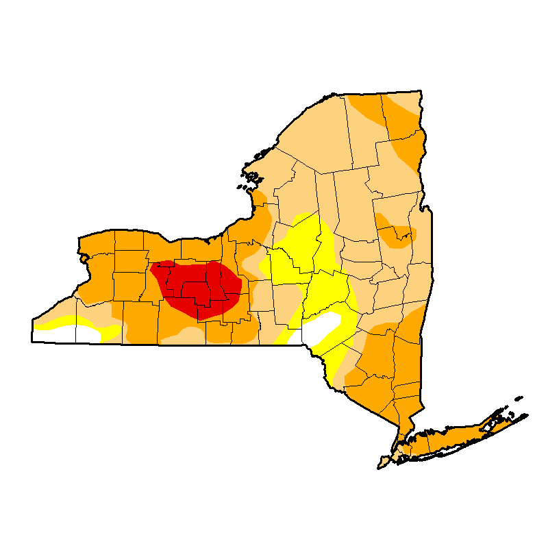 US Drought Monitor map image update for New York State during en:2016 New York drought.